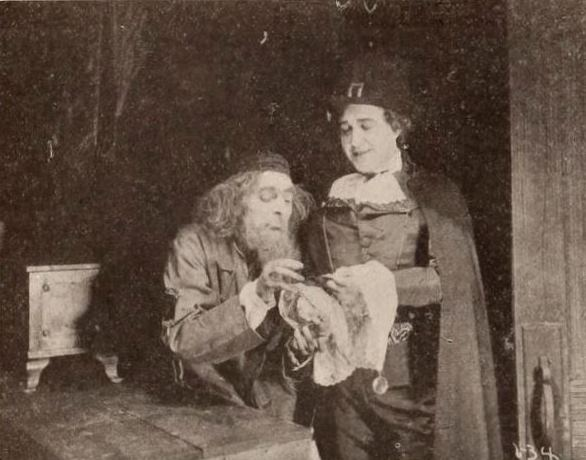 Still from the American adventure film The Scarlet Pimpernel (1917) with an unidentified actor and Dustin Farnum, on page 28 of the November 17, 1917 Exhibitors Herald.